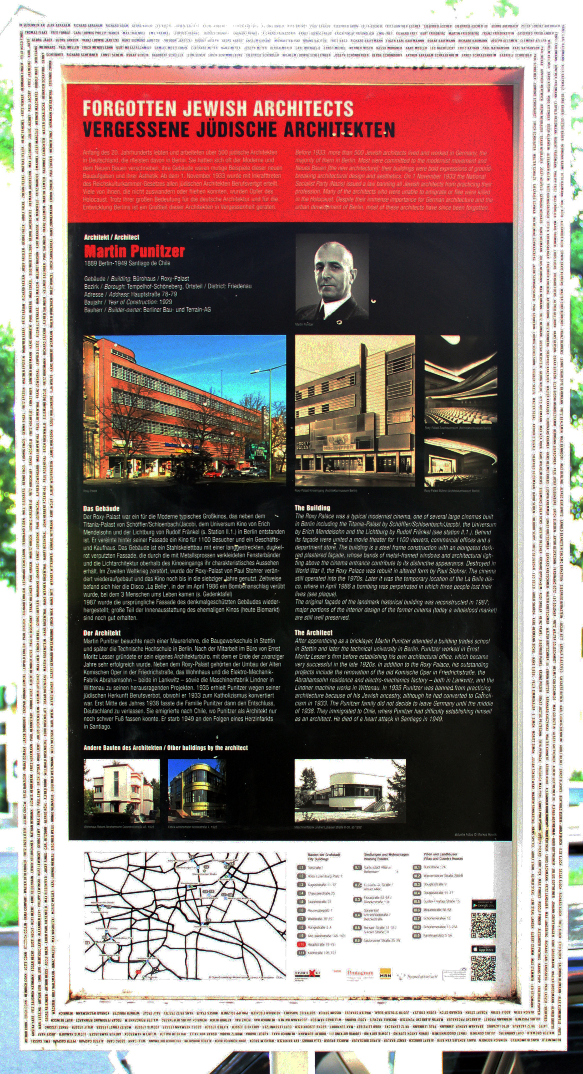 Memorial plaque, Martin Punitzer, Hauptstraße 78, Berlin-Friedenau, Germany